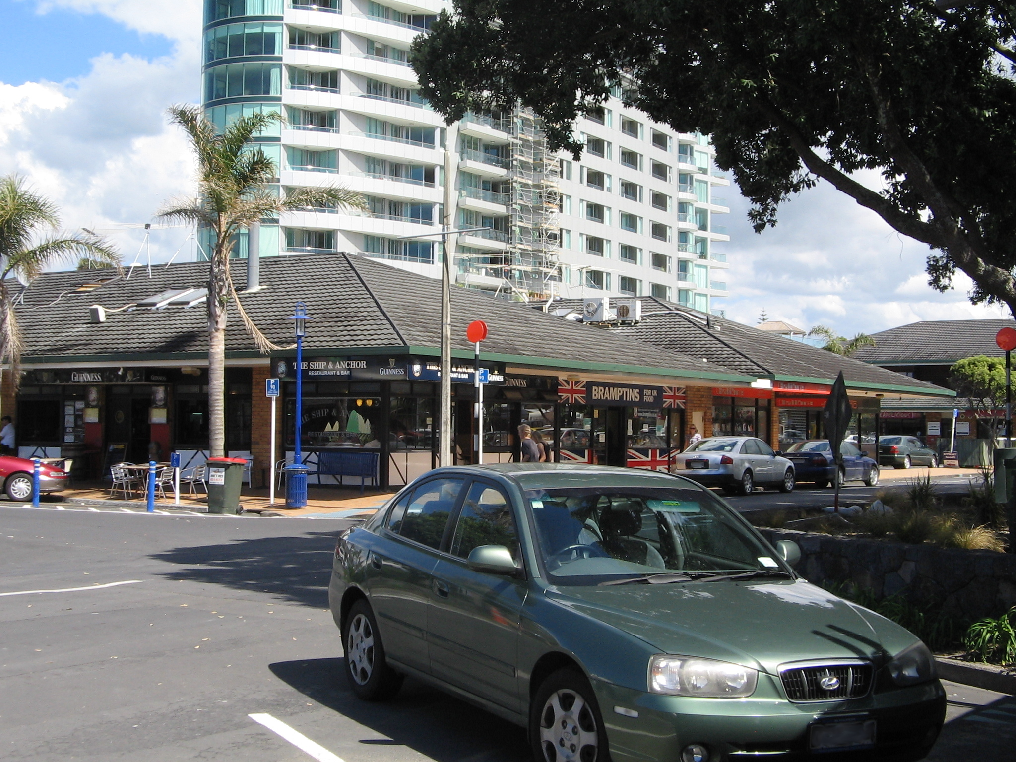 Shops in Orewa, Auckland Region, New Zealand.